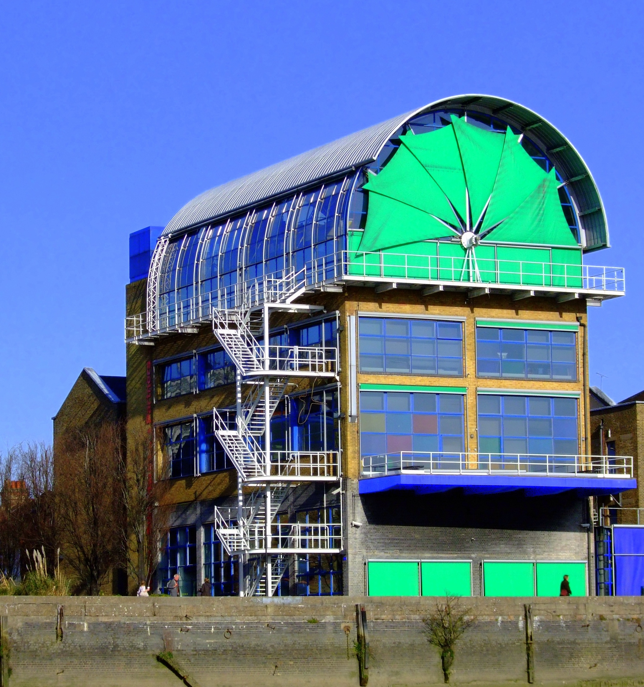 Thames Wharf Studios, a very colourful building on the banks of the Thames. London